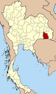 Map of Thailand highlighting Sisaket province